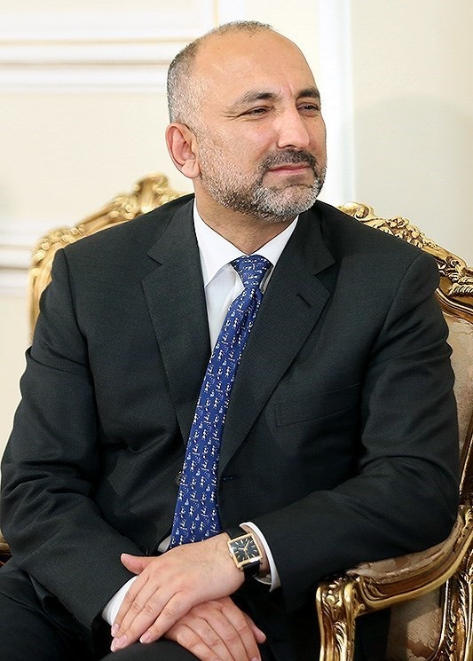 Mohammad Hanif Atmar